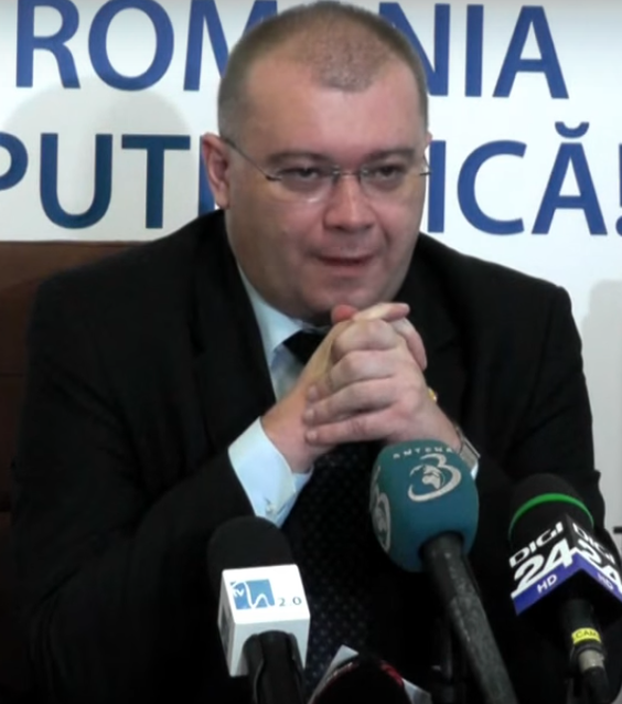 Dan Mihalache